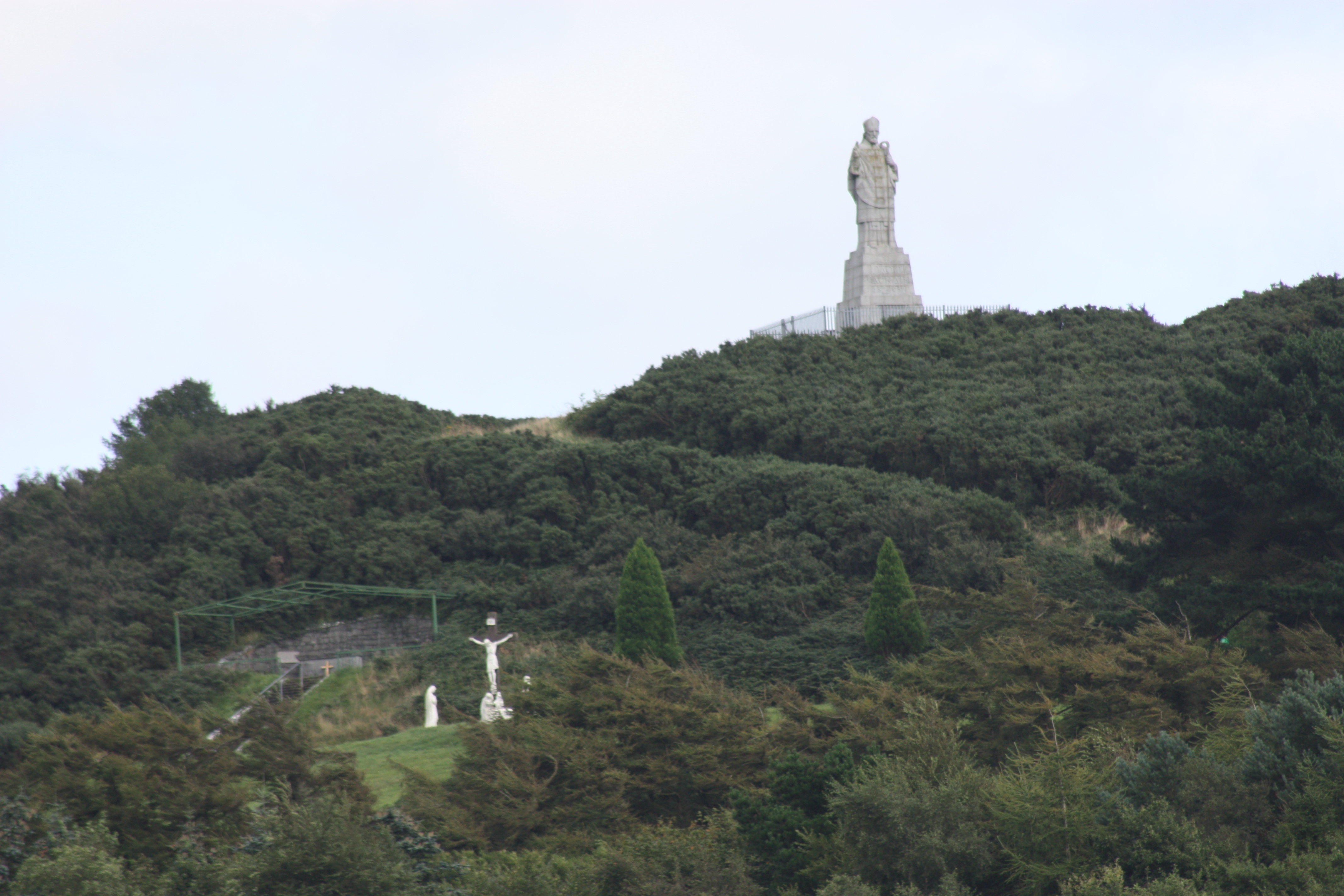 Statue of St Patrick on Slieve Patrick, Saul, County Down, Northern Ireland, August 2009 (viewed from St Patrick's Parish Church, Saul)